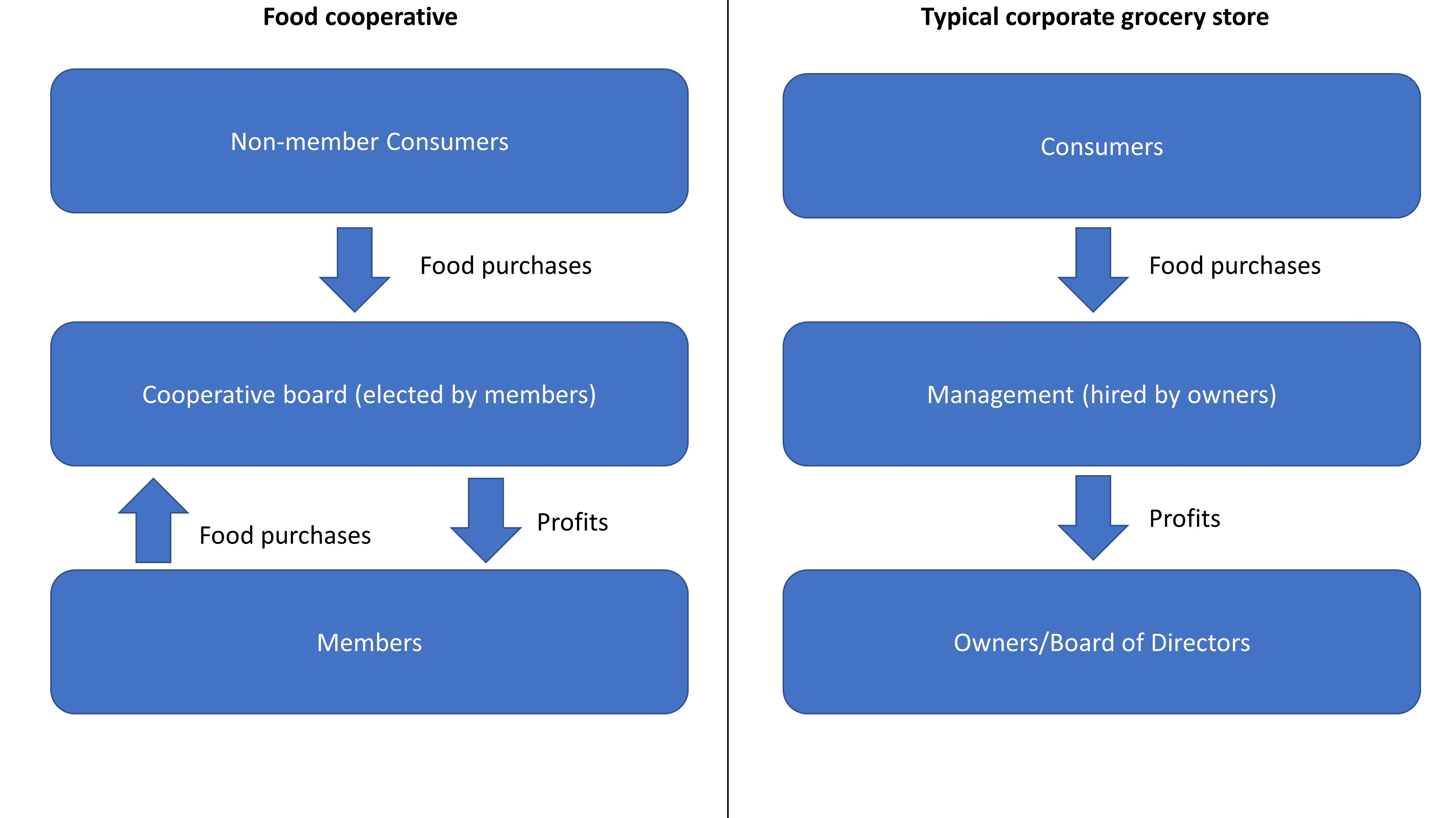 Diagram comparing economic flows in a food cooperative vs. a traditional grocery store